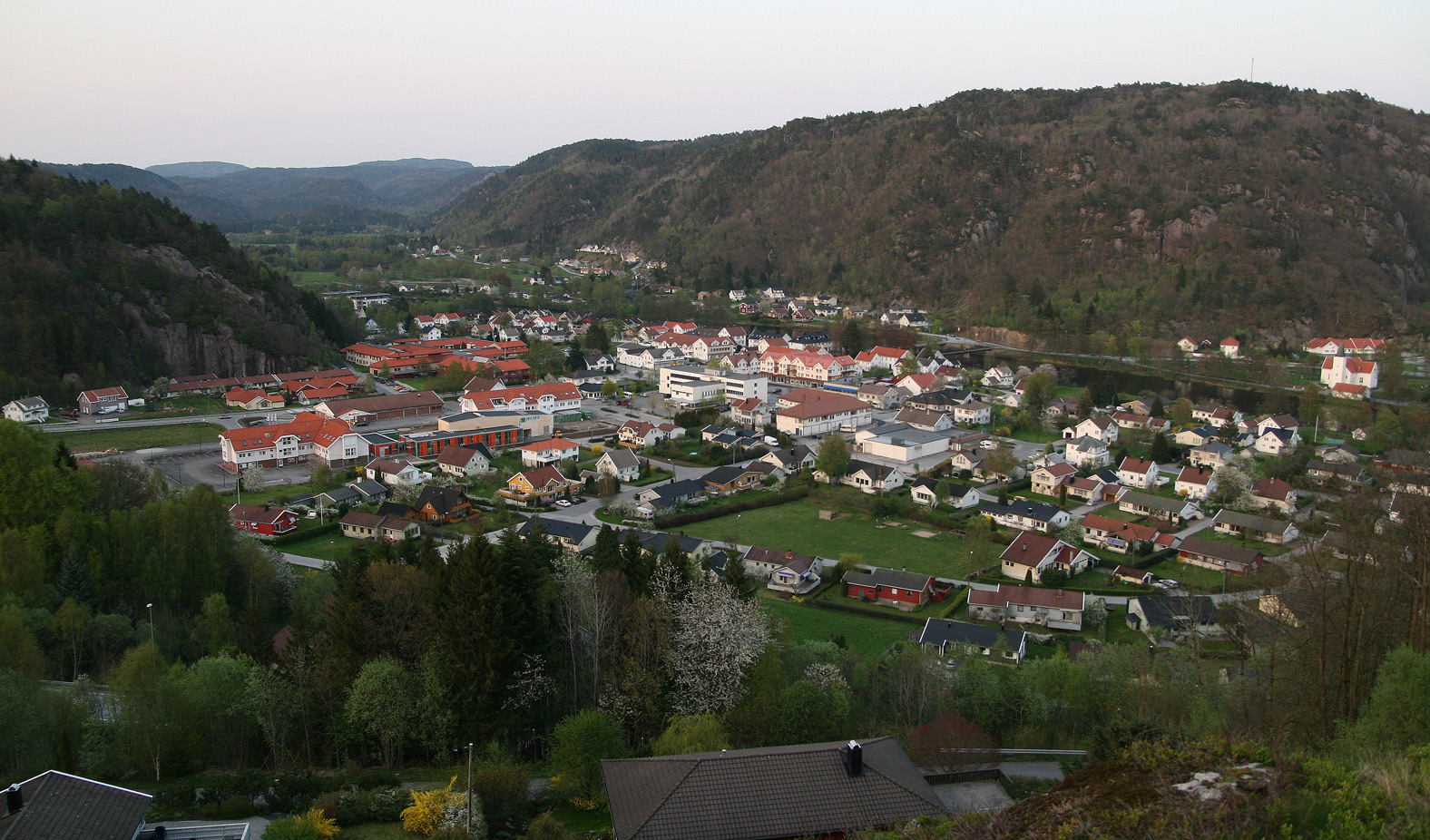 Vigeland, community centre in Lindesnes, Norway